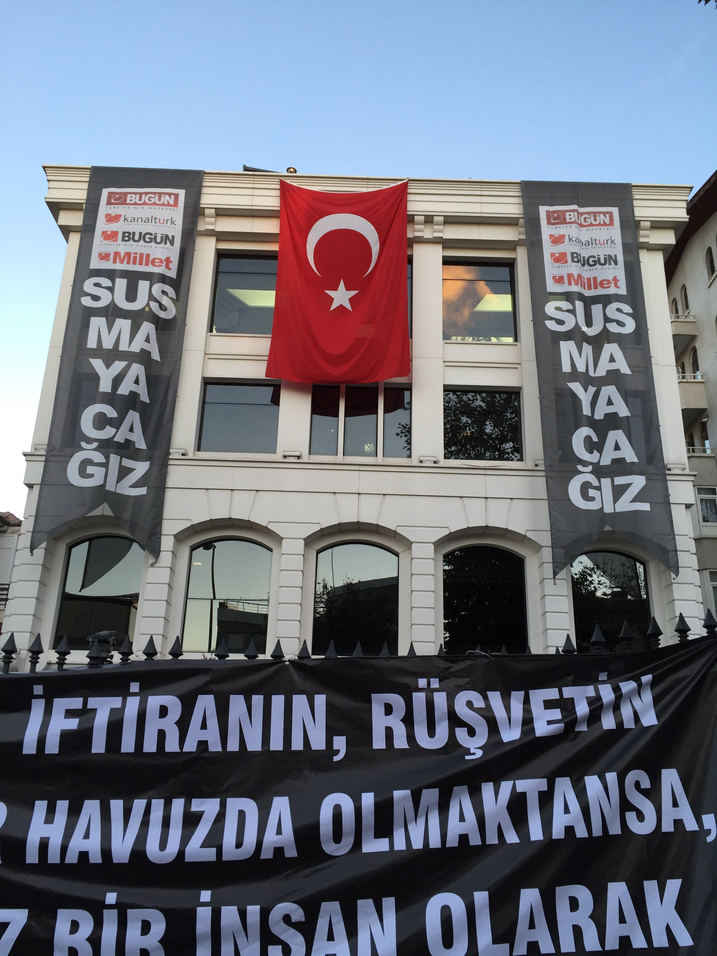 Protest against the 2015 Koza İpek raid in front of the company's headquarter